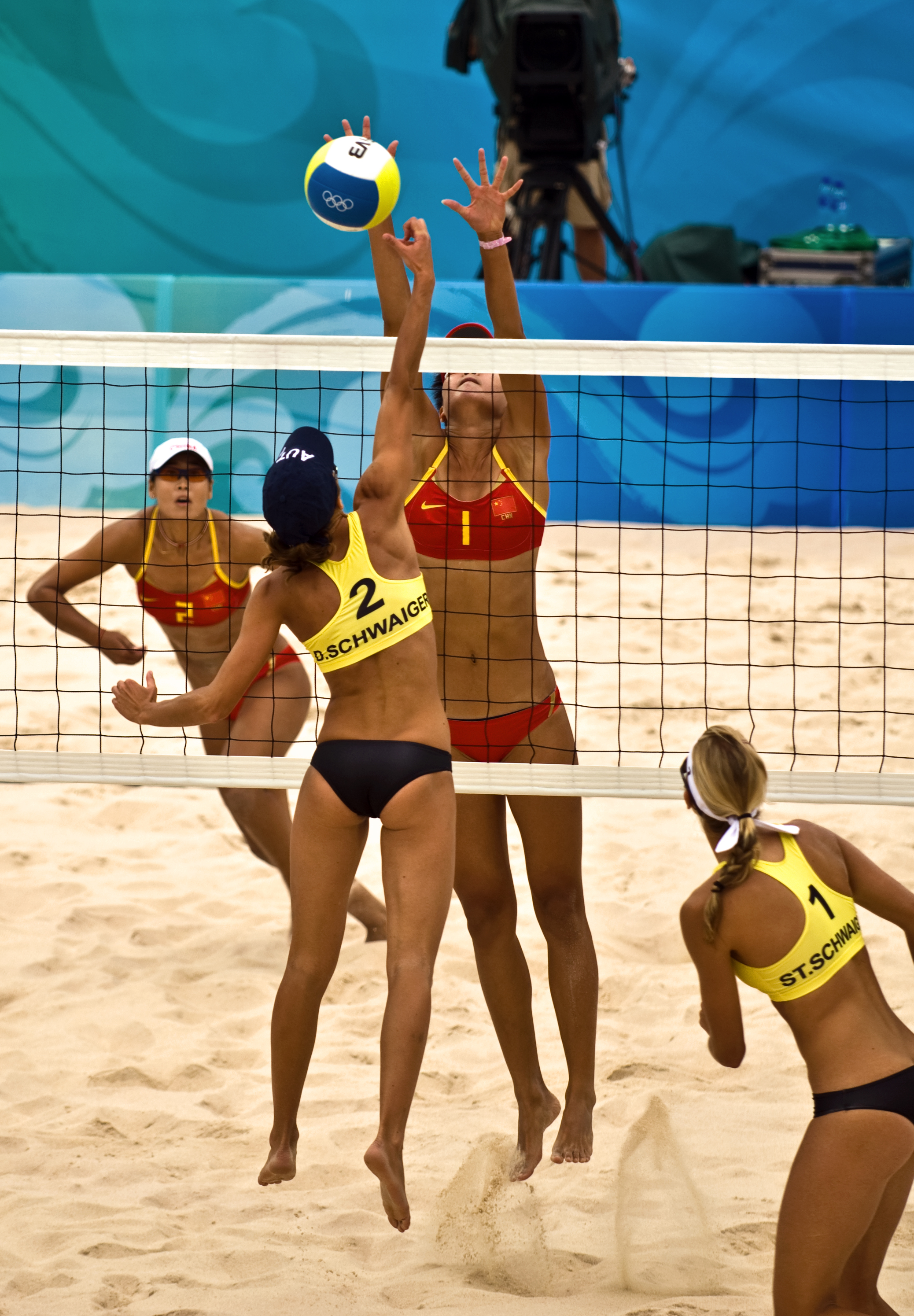 China vs. Austria in Olympic Beach Volleyball. The Austrian team are sisters.